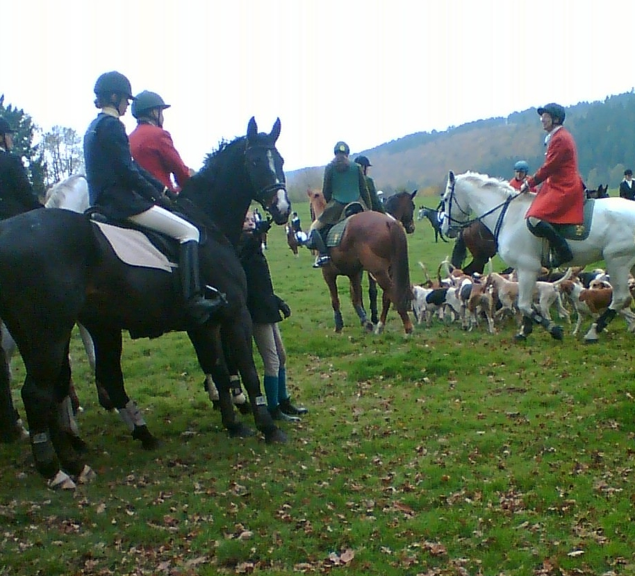 Drag hunting in Neuhaus im Solling Germany 2010